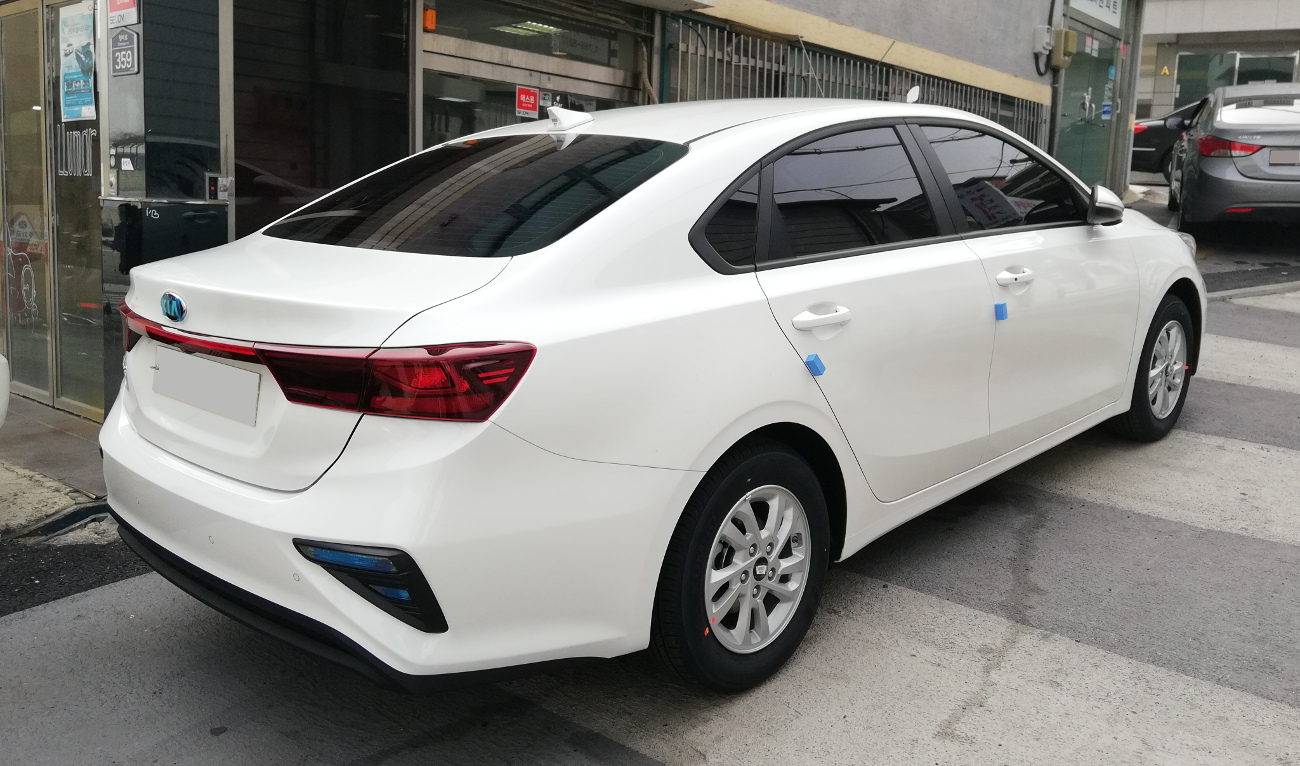 Kia K3 BD photographed in Seoul, South Korea.